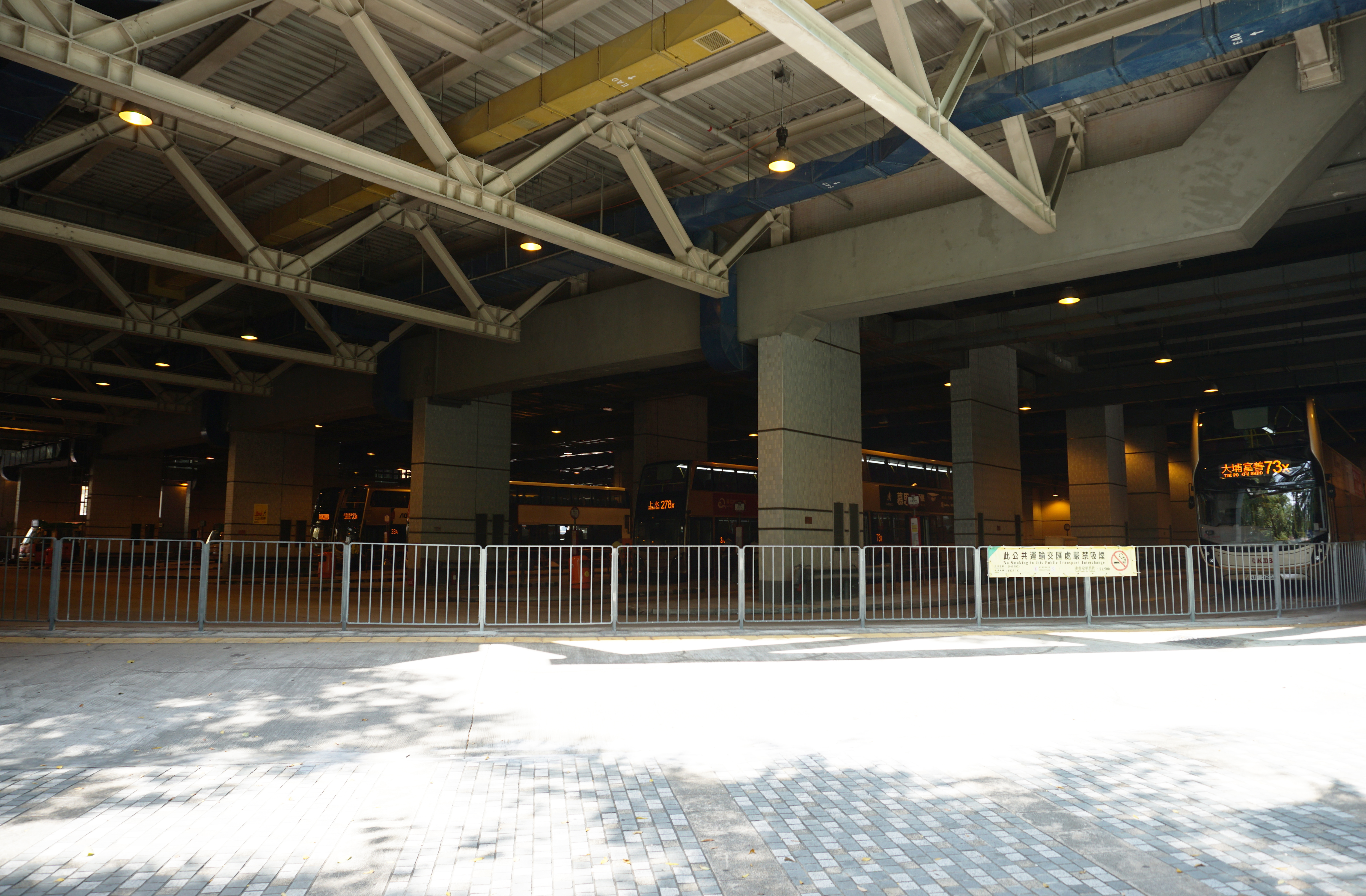 Nina Tower Bus Terminus in Tsuen Wan, Hong Kong.